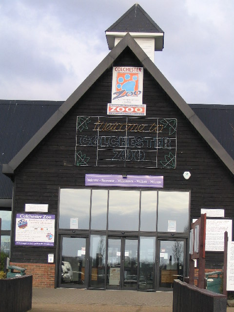 Colchester Zoo. Entrance to the ticket office from car park